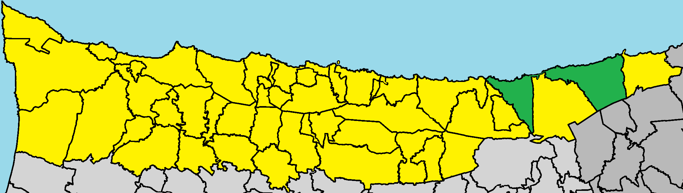 Agios Amvrosios Keryneia in Kyrenia District (de jure).